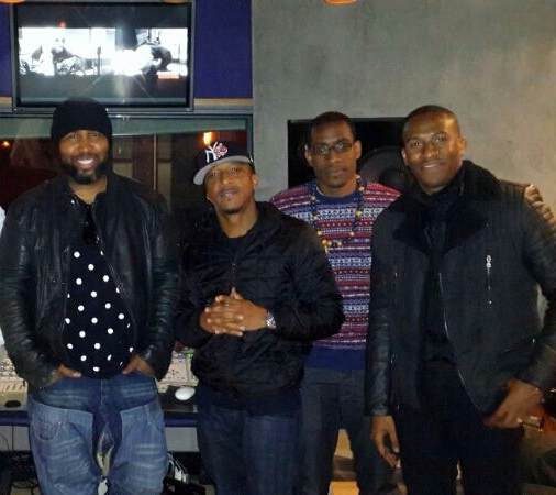 FBE in studio with Claude Kelly